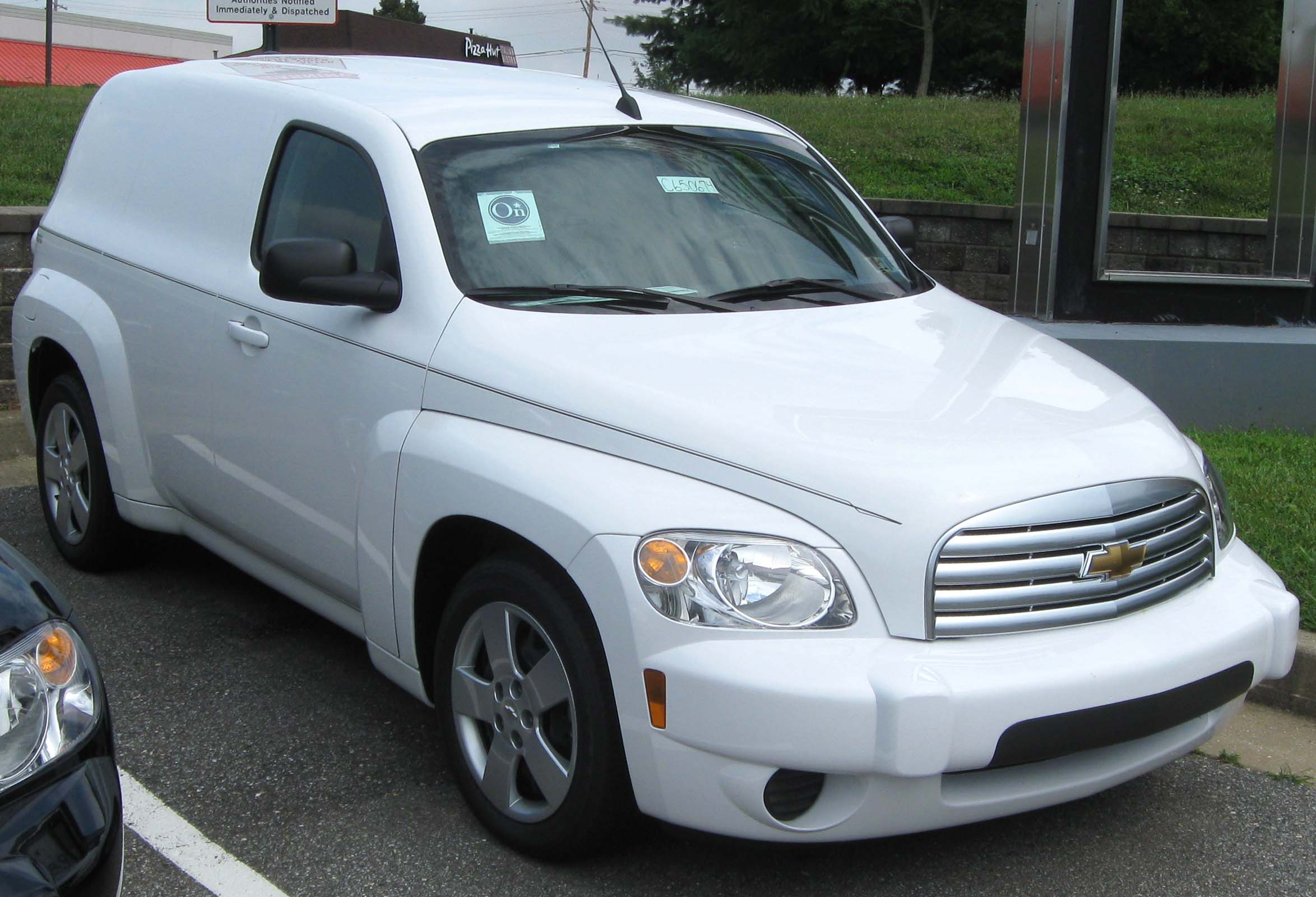 Chevrolet HHR photographed in Clarksville, Maryland, USA.